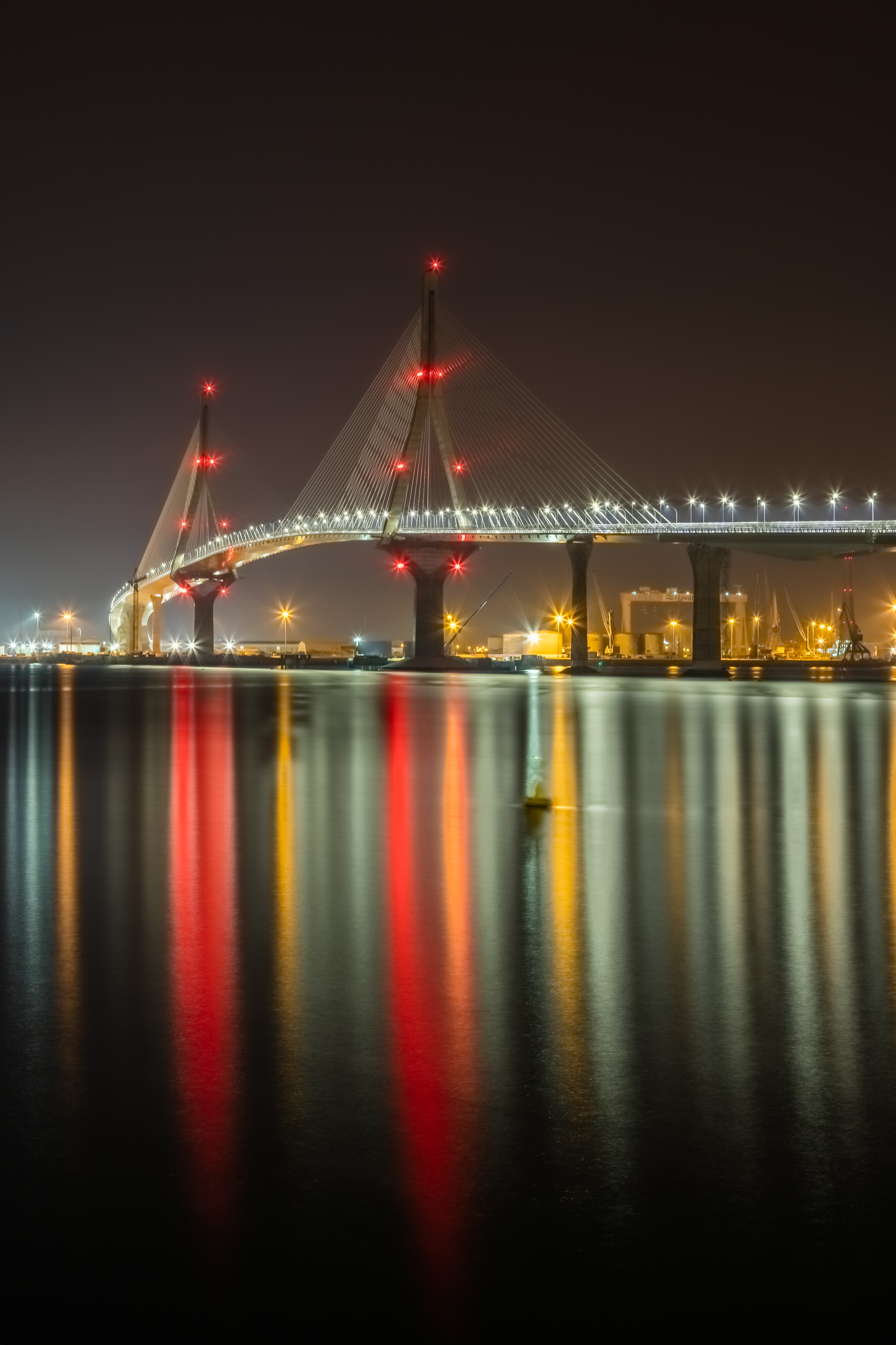 Constitution of 1812 Bridge, Cádiz, Spain